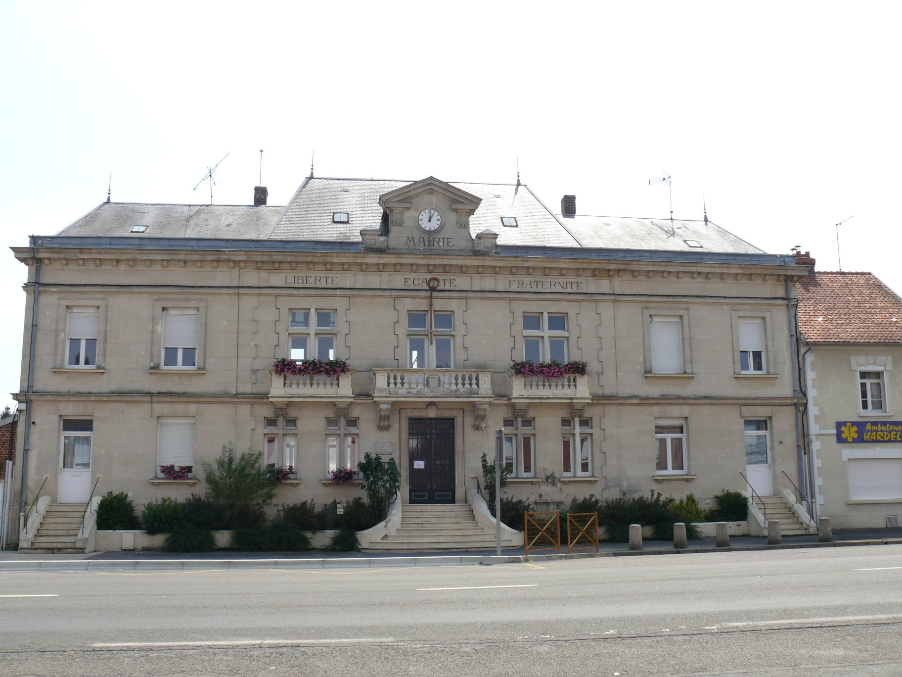 The town hall of Le Catelet (Aisne, Picardie, France).